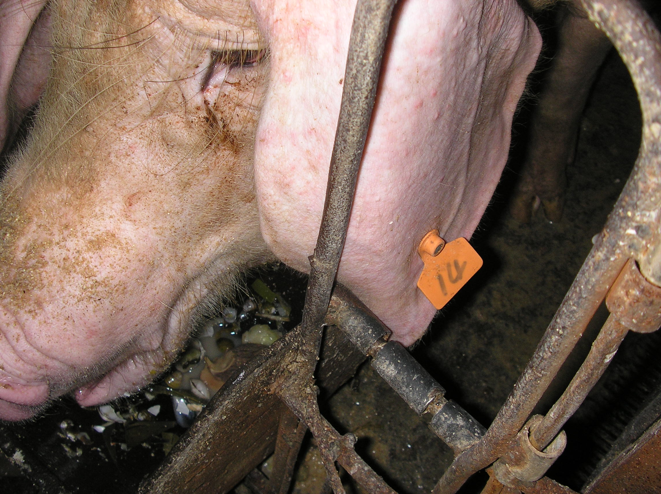 a sow with tag on ear